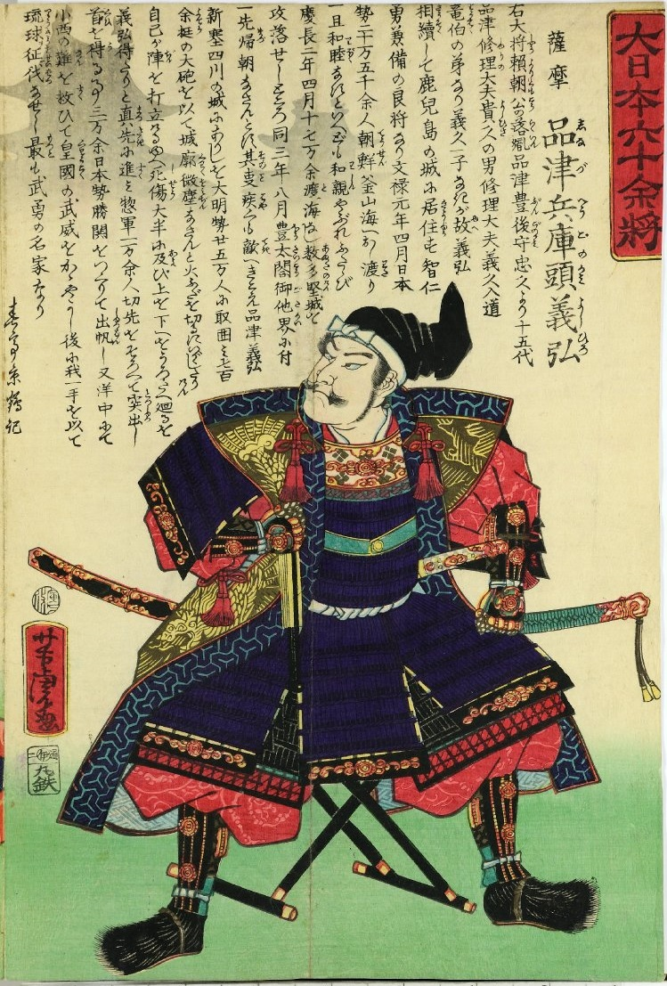 Ukiyo-e of Shimazu Yoshihiro. Satsuma, Shinazu Hyōgo no Kami Yoshihiro, from the series Sixty-odd Famous Generals of Japan, woodblock print